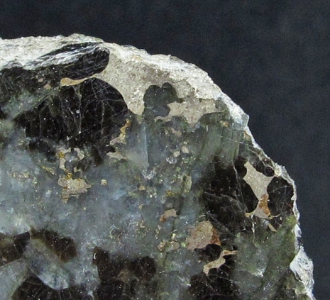 Braggite is a rare Pt-Pd-Ni sulfosalt and moncheite is a rare Pt-Pd-Te-Bi sulfosalt and are members of rare sulfosalt series. Specimens of any species are very uncommon from the obscure Stillwater Complex of Montana. This polished serpentine slab hosts both species in very rare combination. Splendent brassy braggite laths to about 3 mm are scattered on the sliced and polished serpentine matrix with silvery-bright amoeba-looking moncheite masses to about 1.0 cm. Ex. Josef Vajdak Collection. He was known as one of the top rarities dealers in such things in the second half of the 1900s.